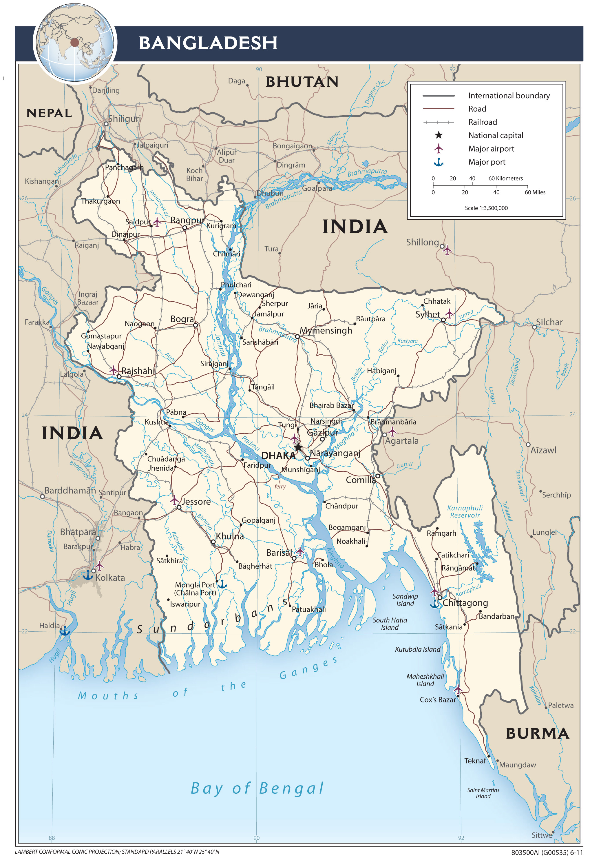 Transport system in Bangladesh, 2011.